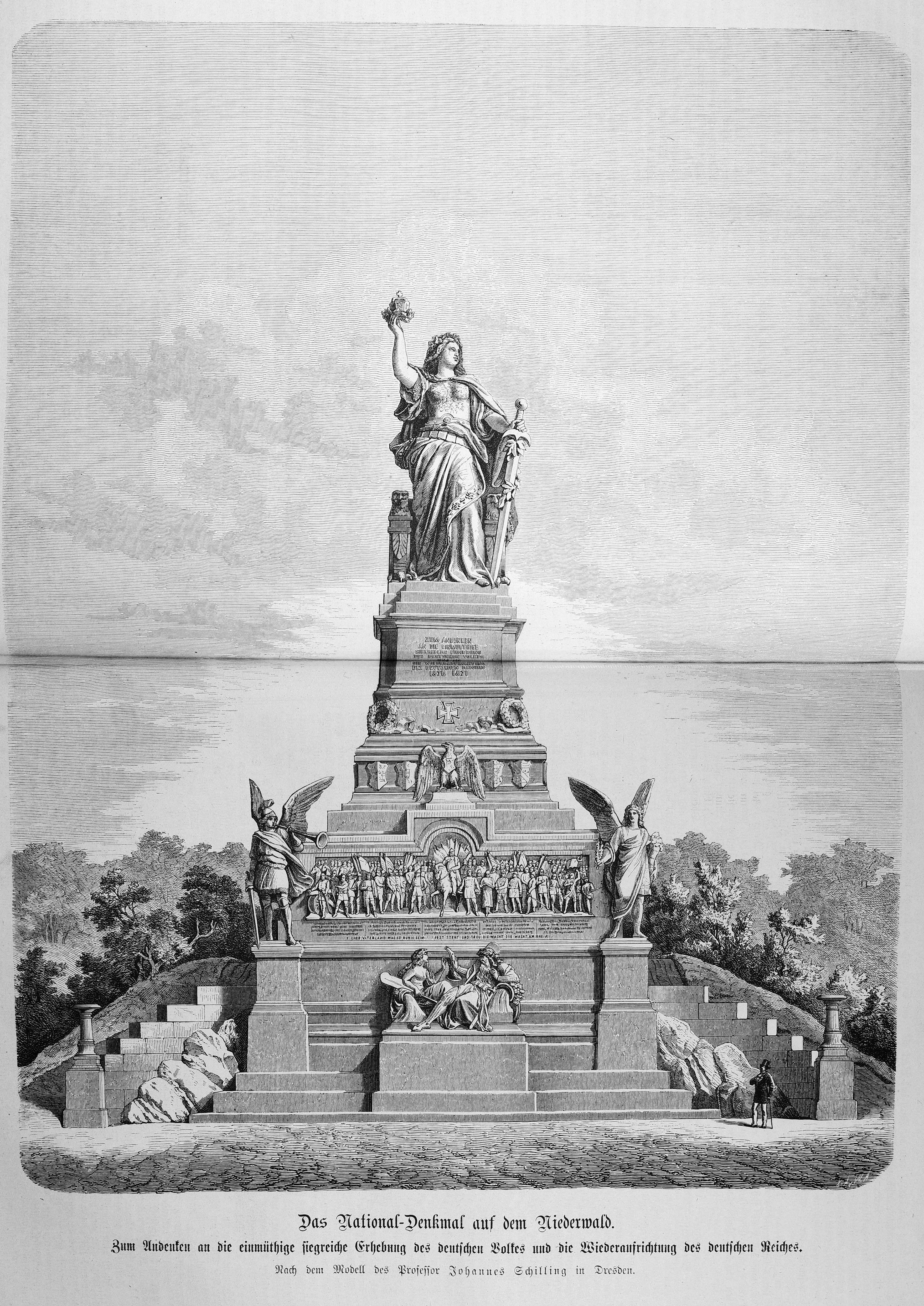 caption: "Das National-Denkmal auf dem Niederwald. Zum Andenken an die einmüthige siegreiche Erhebung des deutschen Volkes und die Wiederaufrichtung des deutschen Reiches. Nach dem Modell des Professor Johannes Schilling in Dresden."